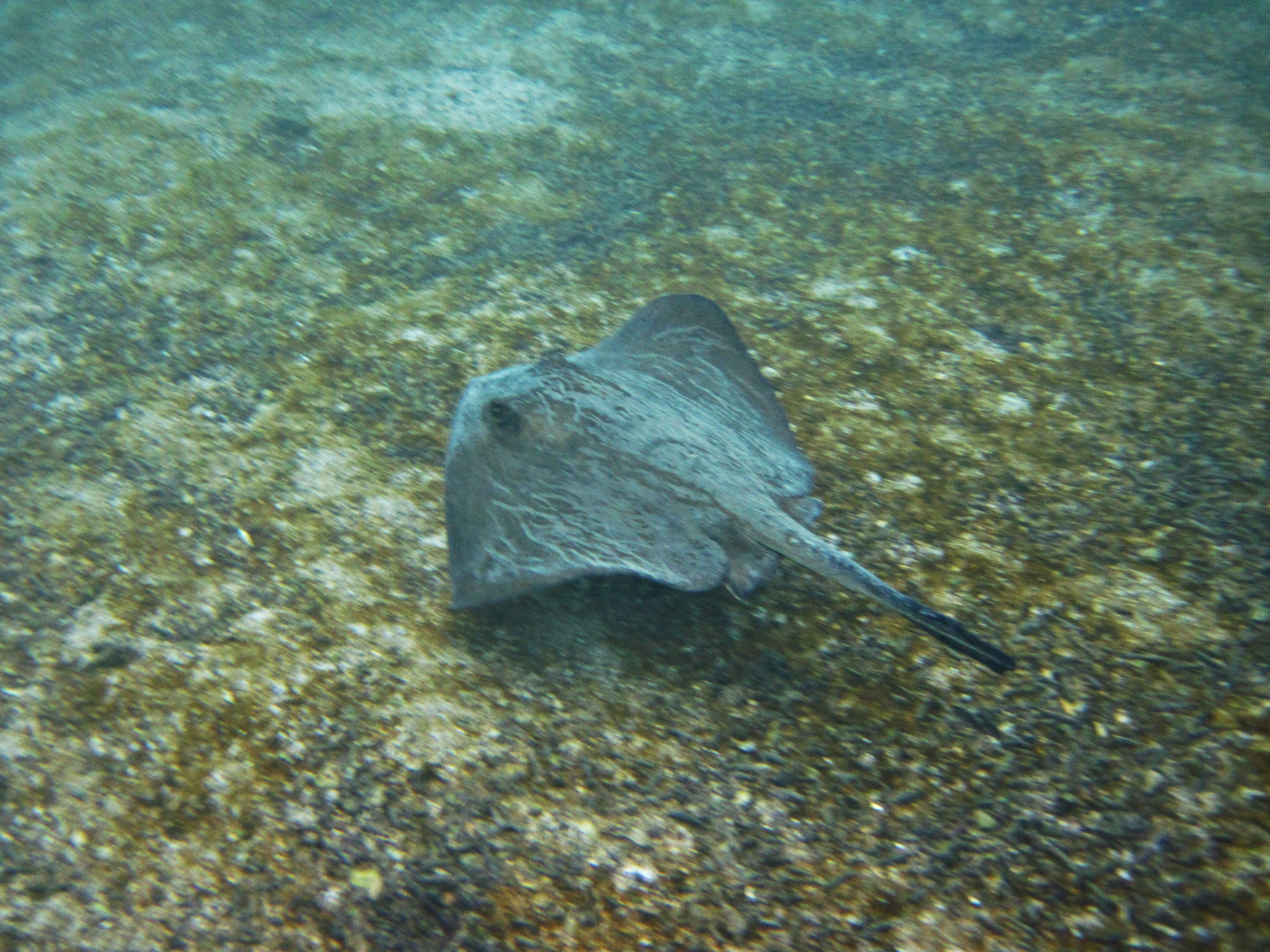 Diamond stingray (Dasyatis dipterura) in the Galapagos Islands